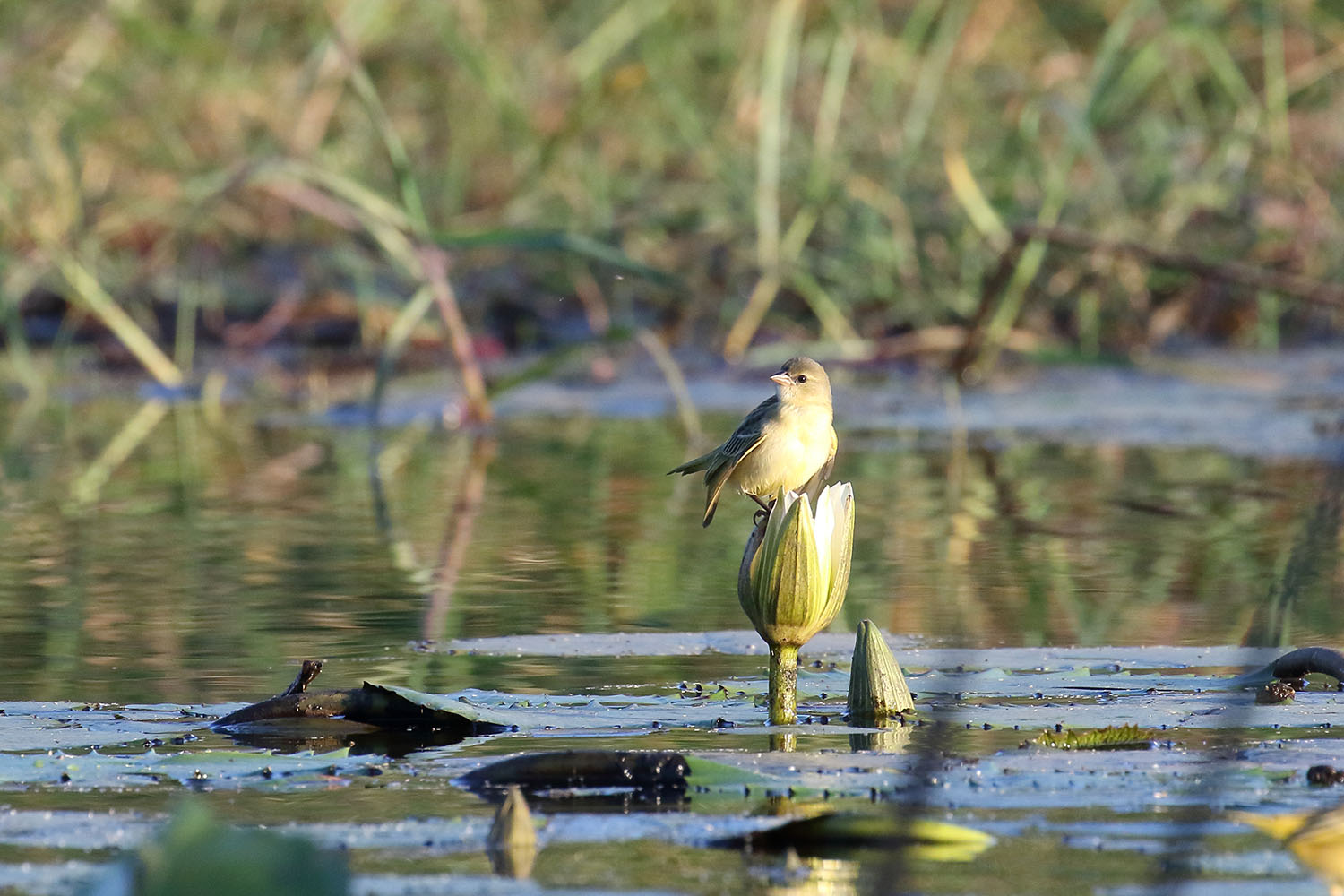 Katanga masked weaver, Bangweulu, Zambia